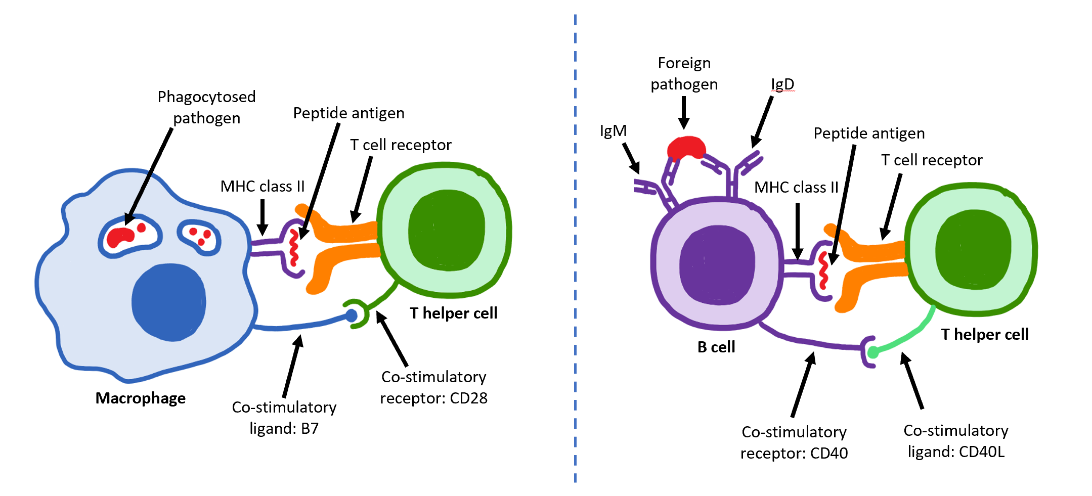 This is a visual depicting how T helper cells and B cells are activated. For T cell activation, there must be binding of the T cell receptor to both the antigen peptide and the MHC class II molecule on an antigen presenting cell (APC). Additionally, there must be binding of the two co-stimulatory molecules (B7 on the APC and CD28 on the T cell). For B cell activation, a pathogen must bind to the IgM and IgD antibodies in order to be internalized and presented on the MHC class II molecule of the B cell. Like T cell activation, there must be binding of the two co-stimulatory molecules (in this case CD40 with CD40L). Once a B cell is activated, it turns into a plasma cell which secretes antibodies.